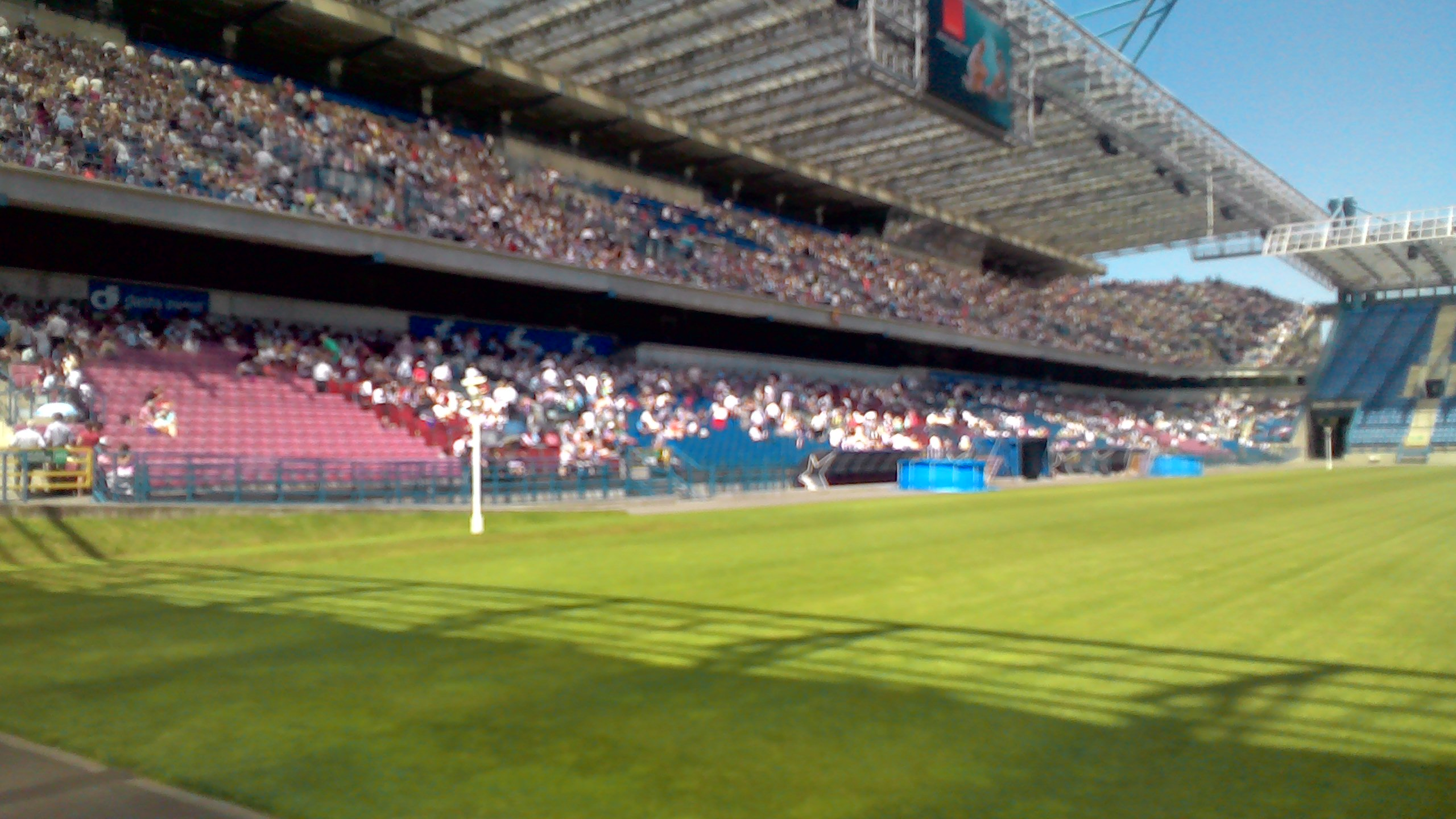 Conventions of Jehovah's Witnesses in Cracow